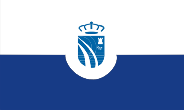 Logotype of Fuenlabrada (Madrid, Spain).